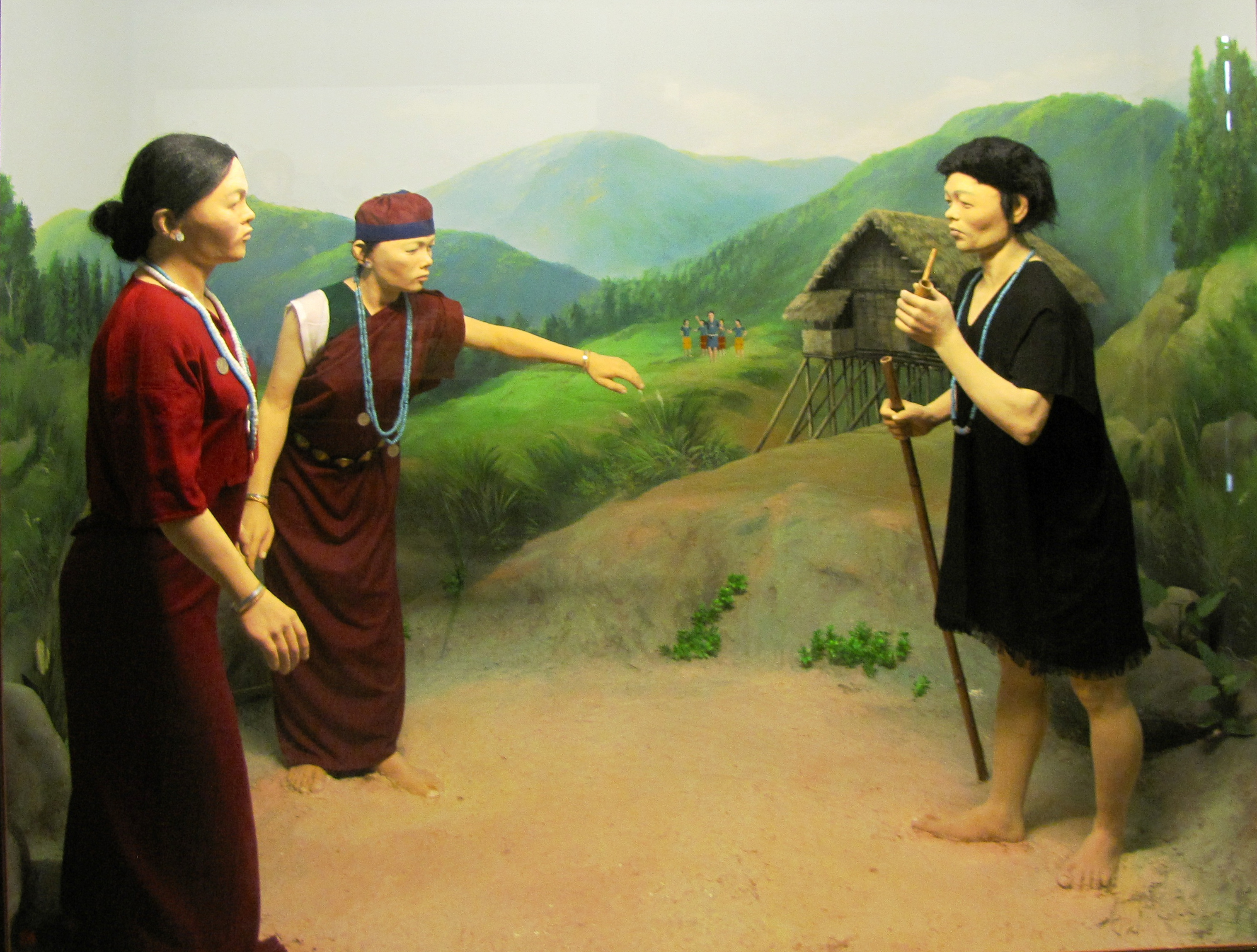 Diorama of Tagin people at Jawaharlal Nehru Museum, Itanagar, Arunachal Pradesh, India.